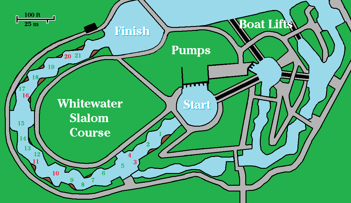 Map of whitewater slalom course used for 2008 Olympic Games in Bejing, China.